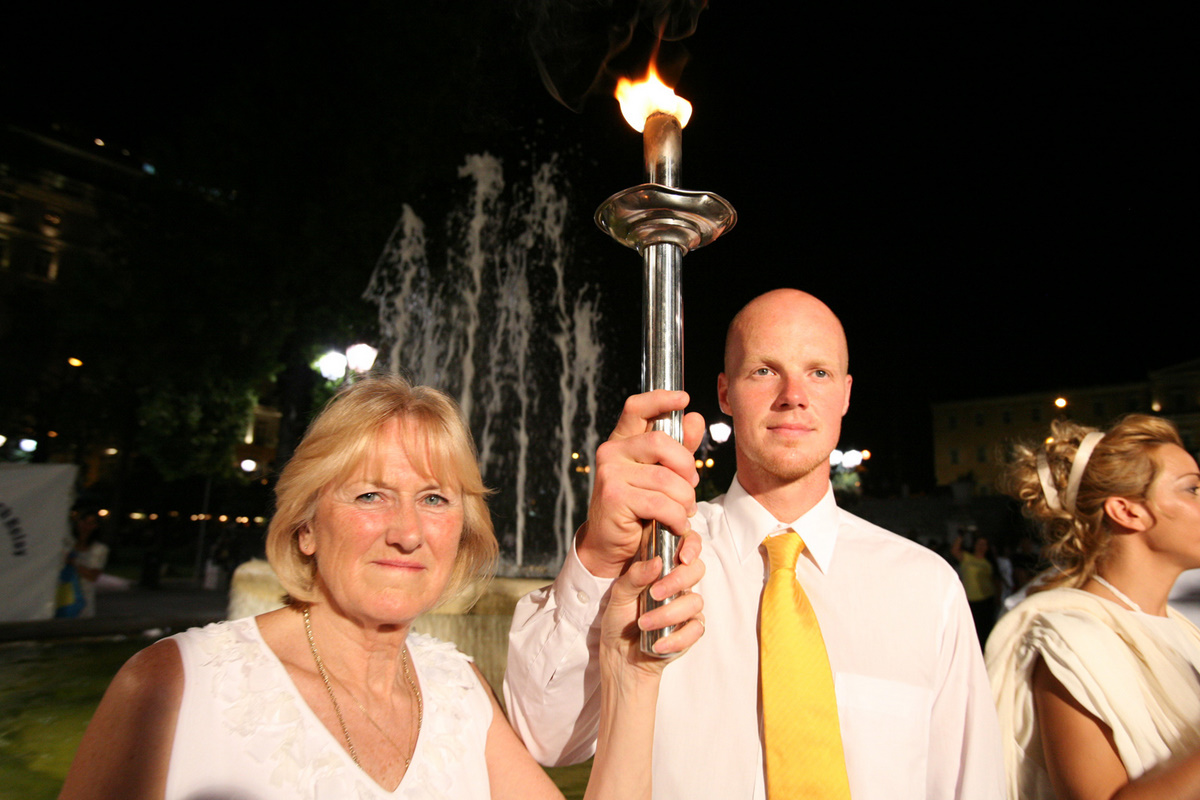 The start of the international Human Rights Torch Relay in 9 August 2007, In Photo: Jan Becker, an Australian swimmer in the 1964 Tokyo Olympics and Mr. Martins Rubenis, Bronze Prize-Winner of Winter Olympic Games 2006